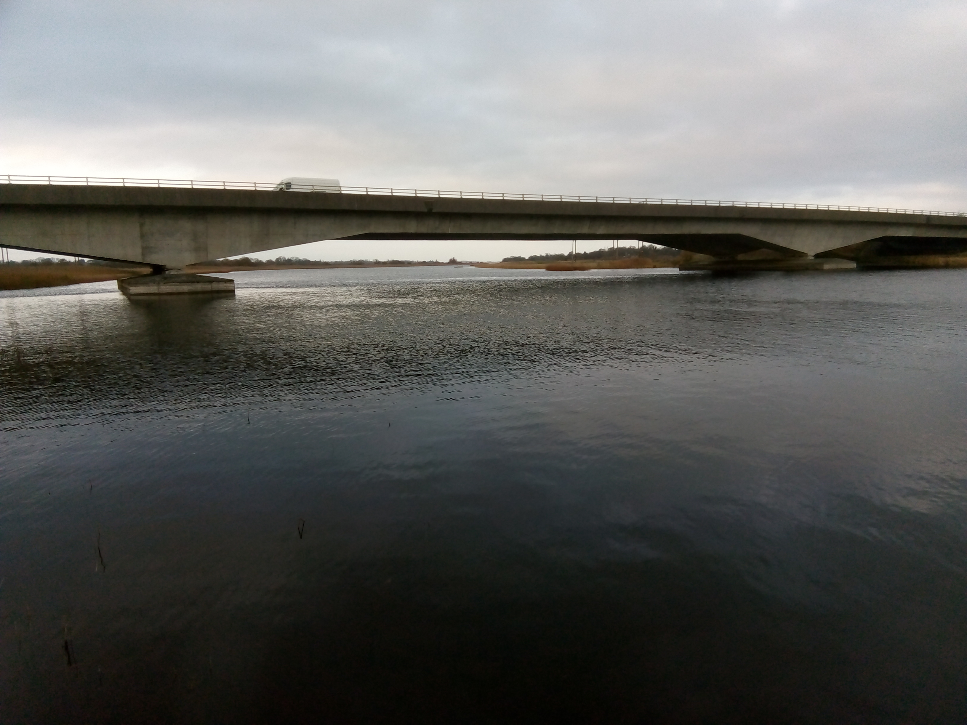 Railway bridge, Athlone